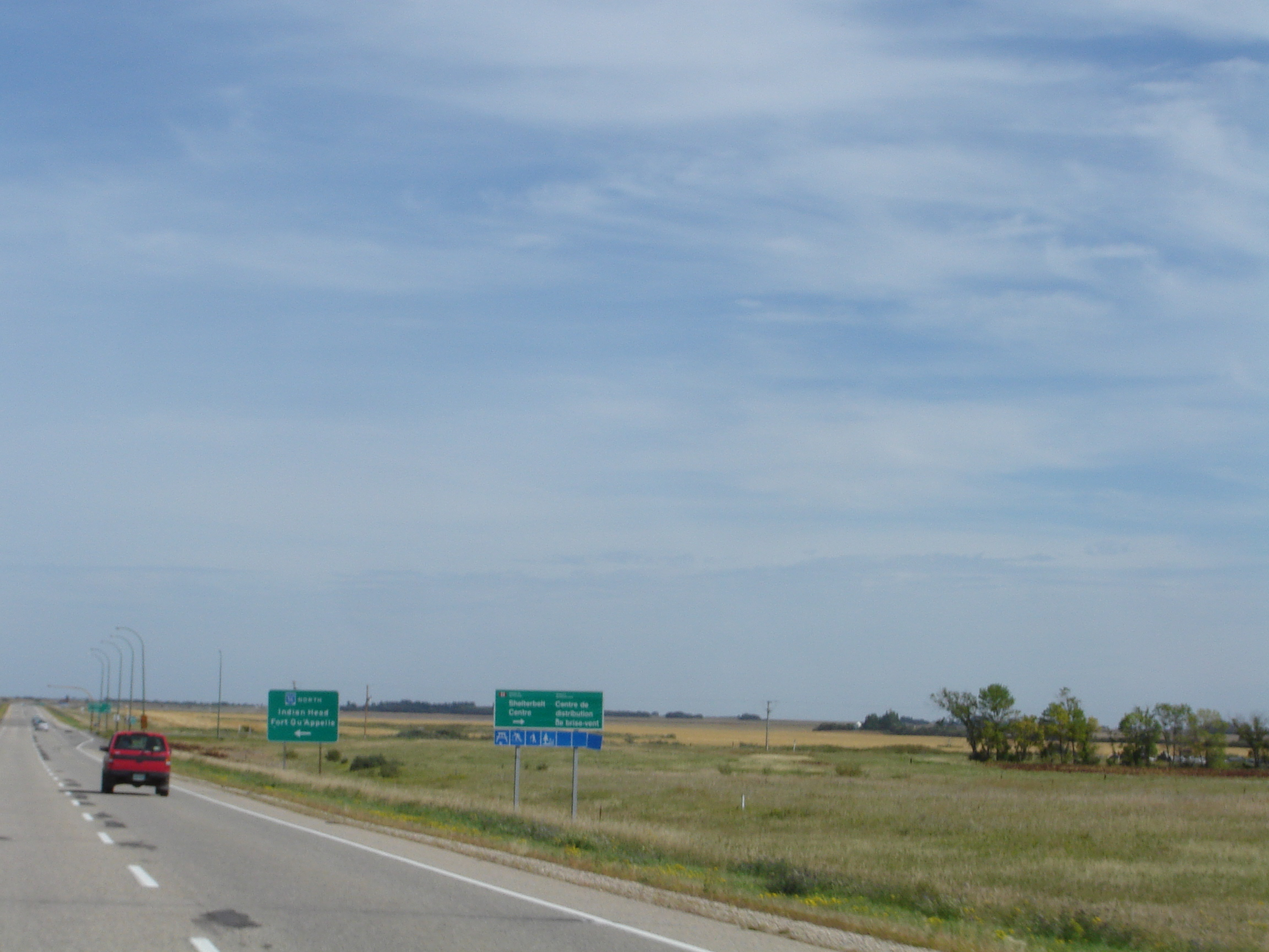 Shelterbelt Center; Indian Head Fort Qu'Appelle; Major intersection Saskatchewan Highway 56; Saskatchewan Highway 1 Trans Canada Highway